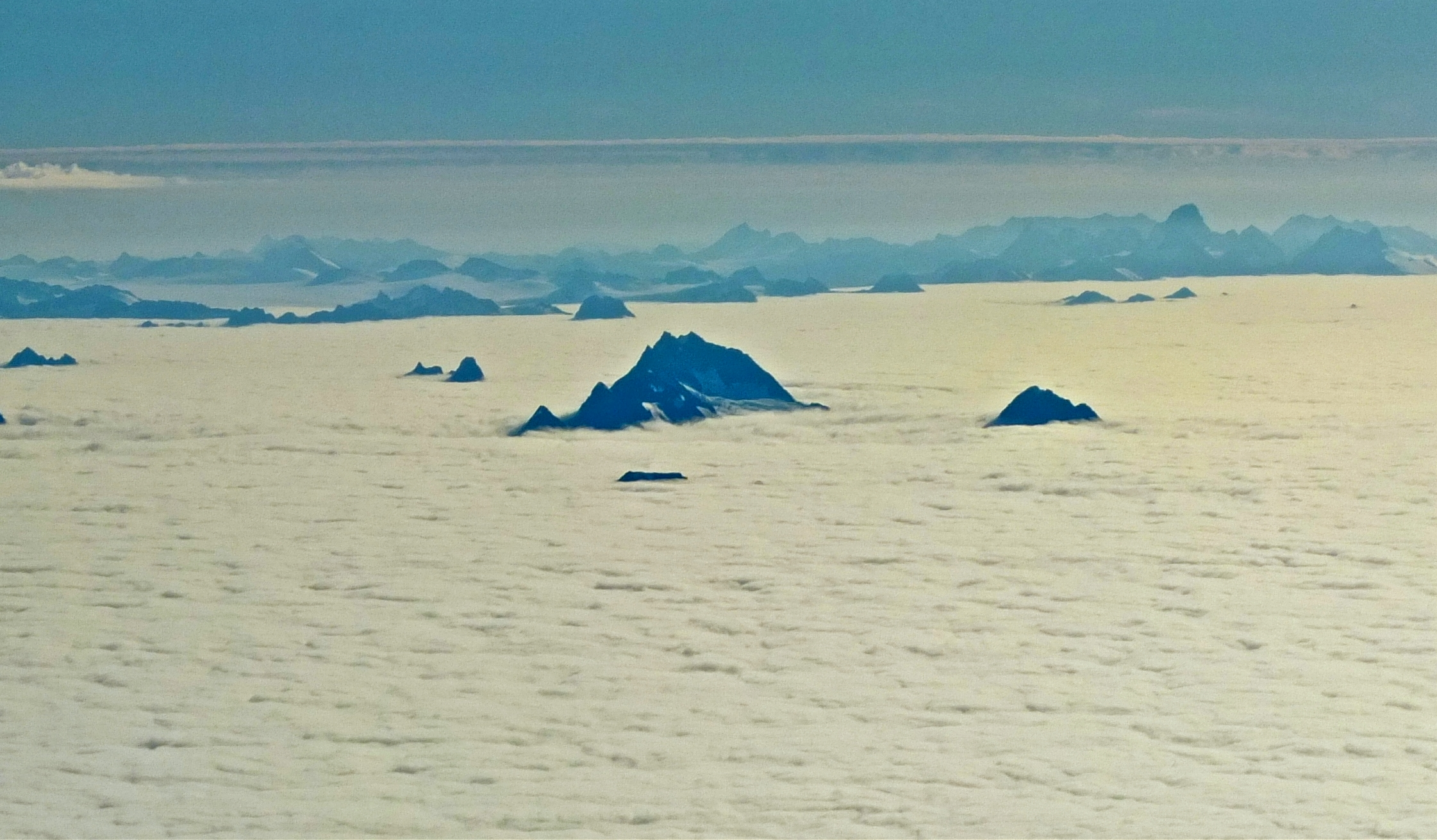 The Snow Towers rising above clouds that cover the Juneau Icefield. Camera is pointed northeast.